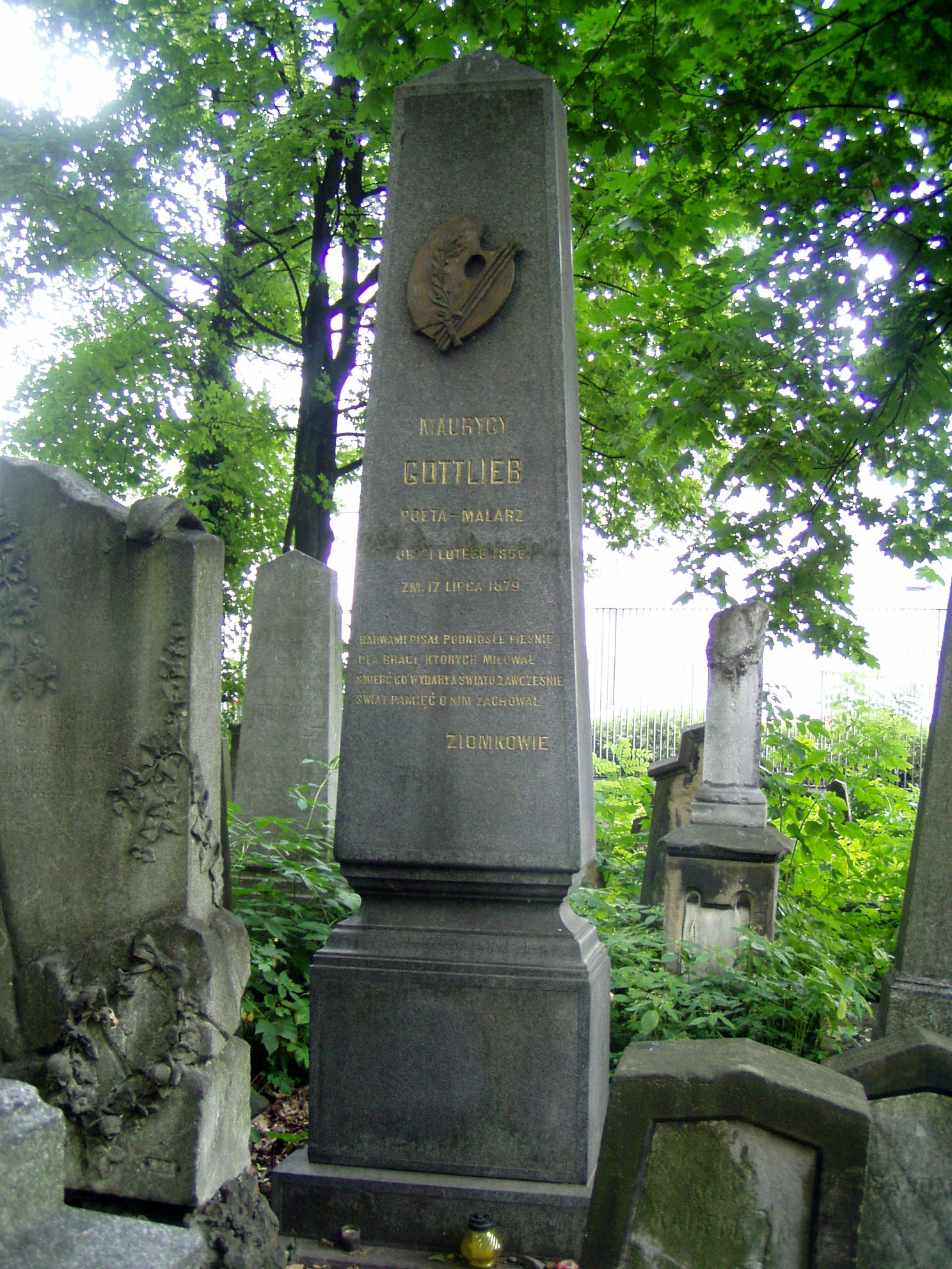 Maurycy Gottlieb Grave